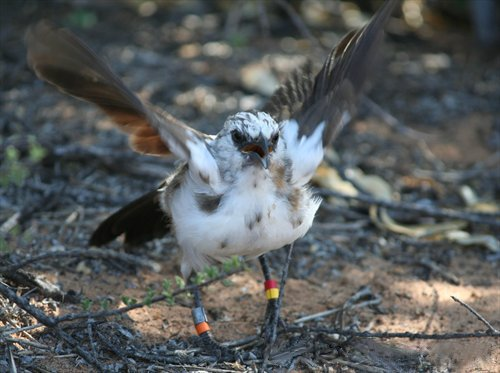 Begging behaviour of a fledgling Southern Pied Babbler (Turdoides bicolor).